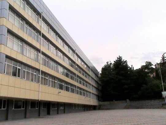 School of the Future today